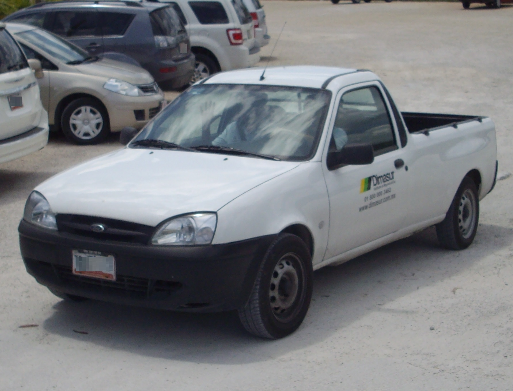 Ford Courier photographed in Quintana Roo, Mexico.